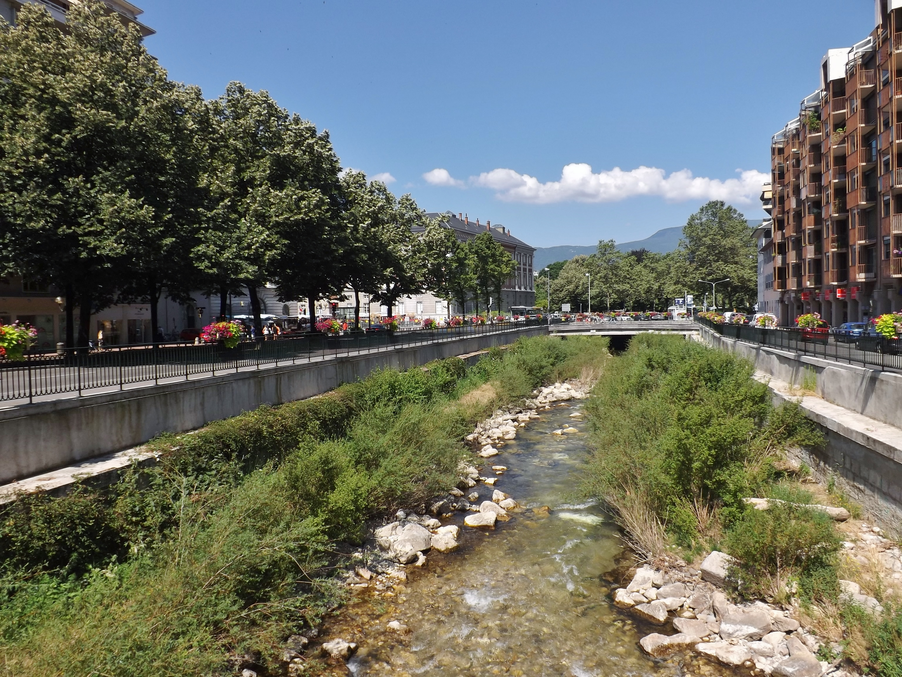 Sight of the river Leysse crossing Chambéry (Savoie, France) on its uncovered part since 2013.